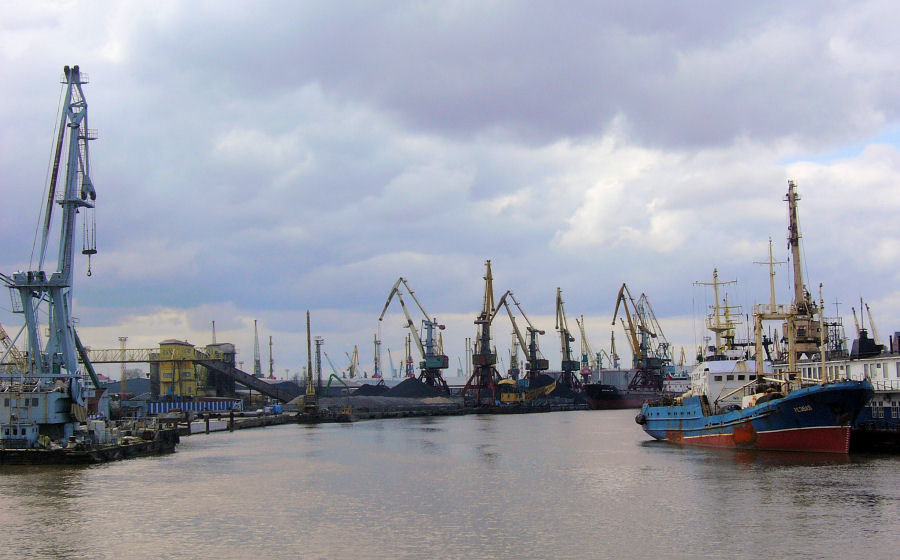 Port of Kaliningrad